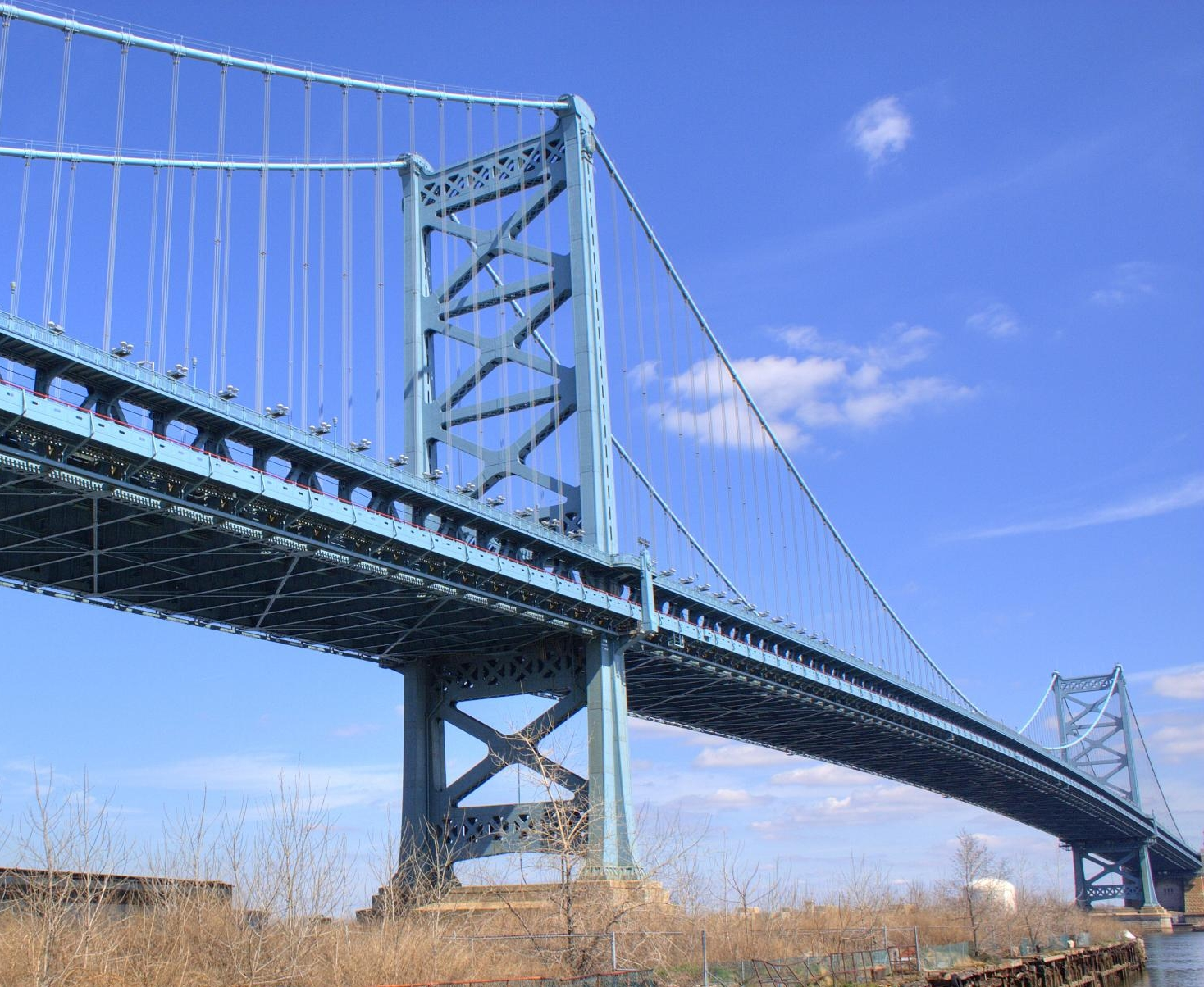 The Benjamin Franklin Bridge is a suspension bridge across the Delaware River connecting Philadelphia, Pennsylvania and Camden, New Jersey